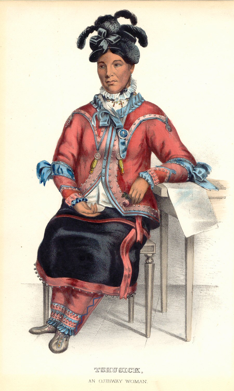 Tshusick, an Ojibway woman by Charles Bird King, Published ca. 1836-44 by Rice, Rutter & Co., Philadelphia.. SI.1990.018 H.10 1/4" X W.6 3/8" (octavo)